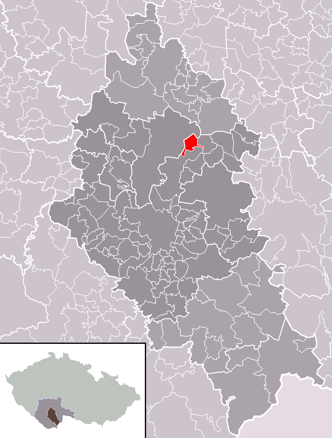 Location of Vlkov municipality within České Budějovice District and administrative area of České Budějovice as a Municipality with Extended Competence.